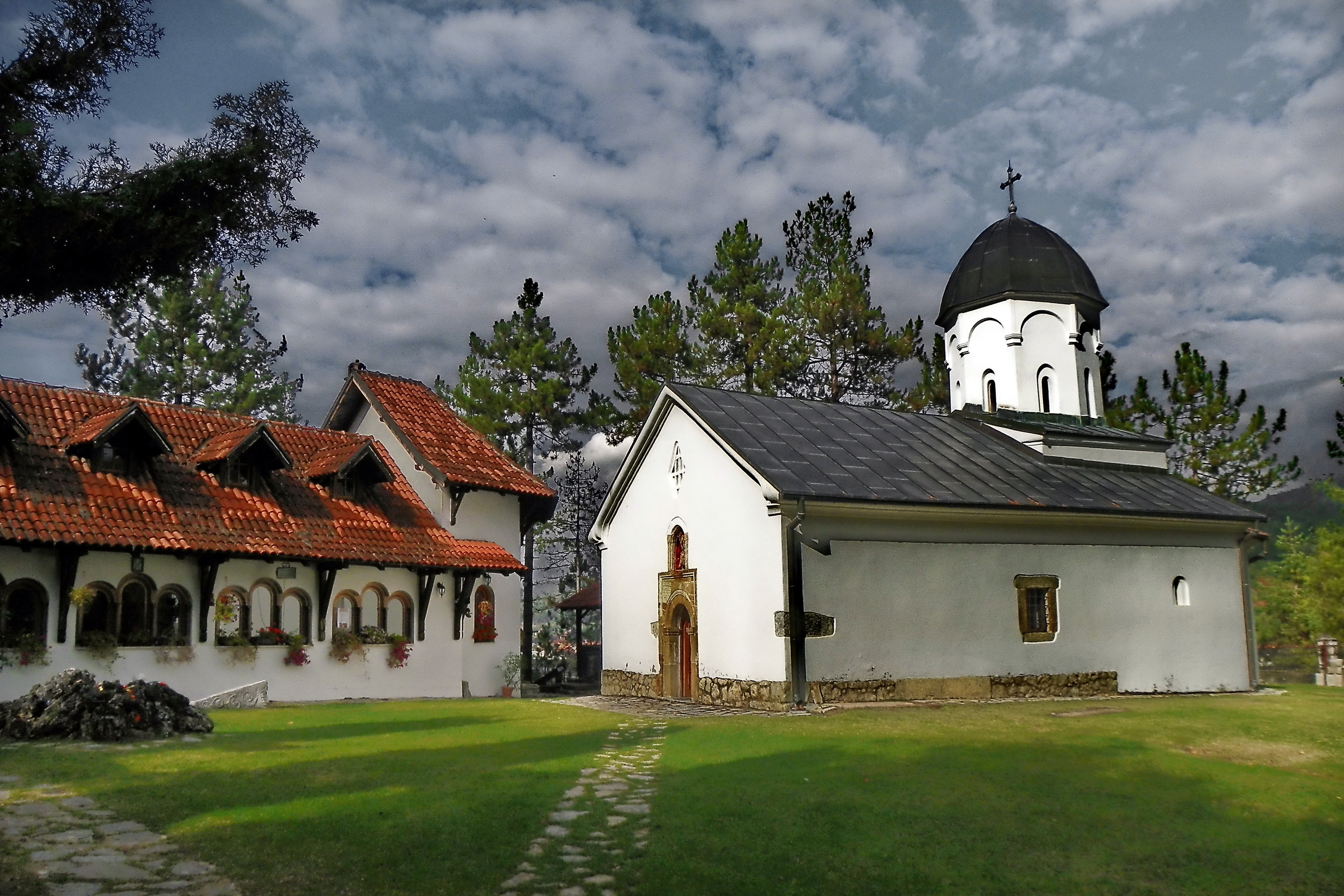 Prilipac, view of the Orthodox church of Nativity of the Virgin Mary from the courtyard